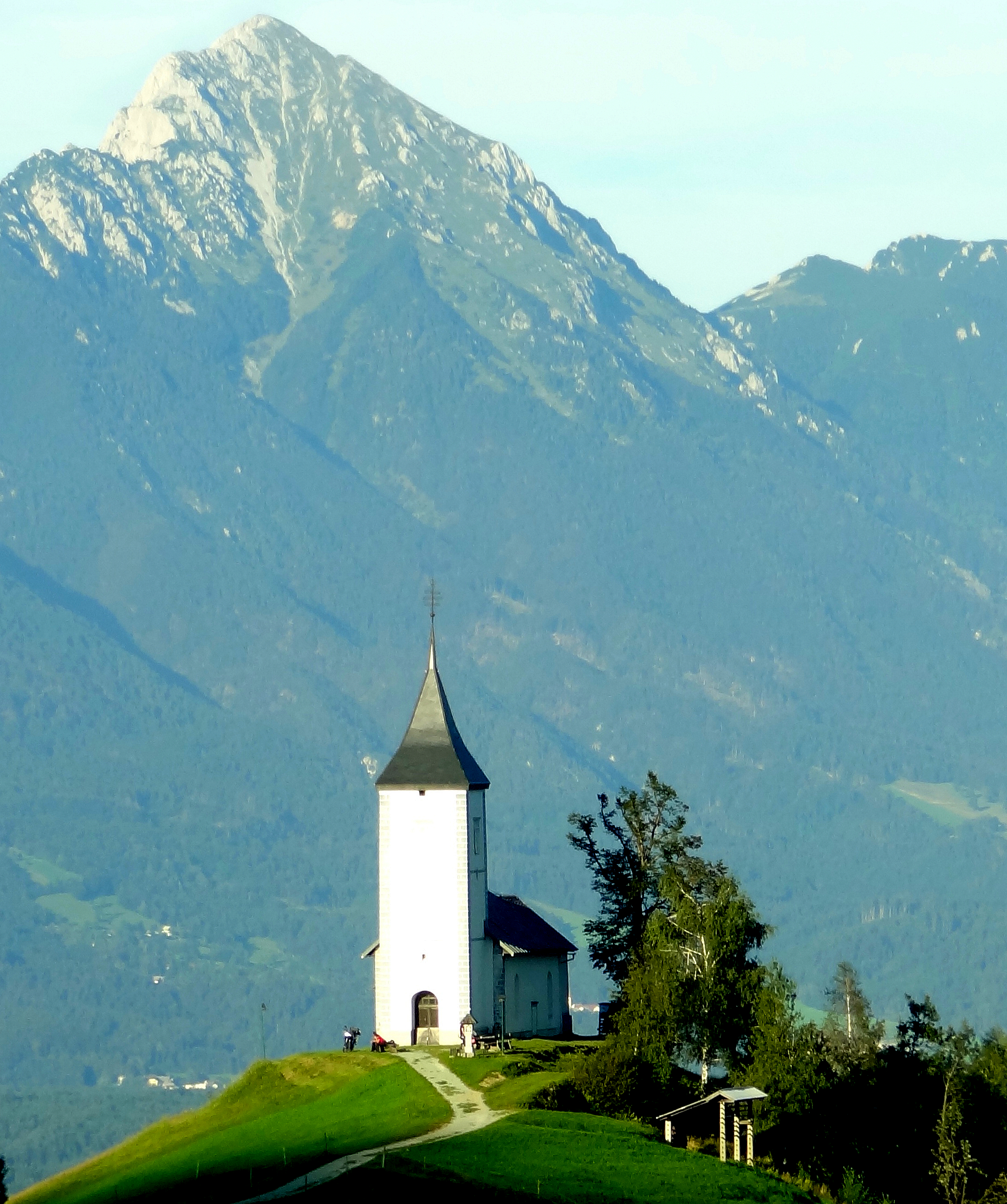 20140829 Hill church